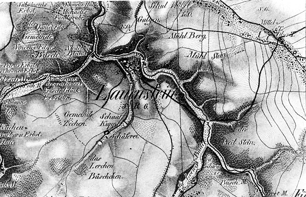 old map of Lauenstein near Geising.